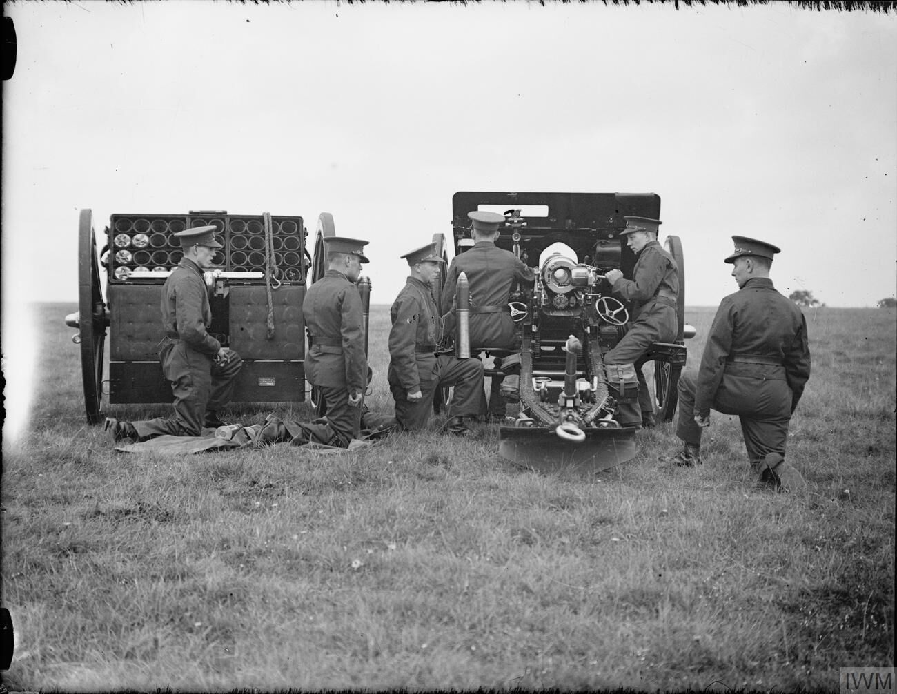 THE BRITISH ARMY IN THE UNITED KINGDOM 1939-45 18-pdr field gun in action during training exercises at the School of Artillery at Larkhill, May 1940. Comment : This shows a Mk IV gun on Mk IV carriage with the original wooden spoked wheels. The ammunition limber is on its left.